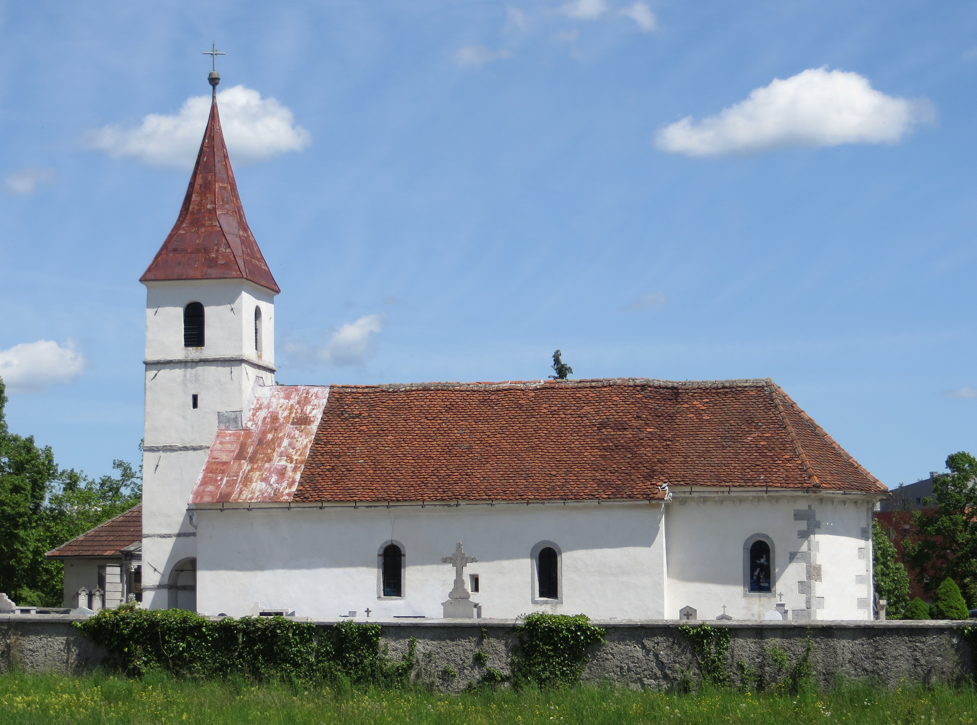 John the Baptist Church in Cerknica, Municipality of Cerknica, Slovenia